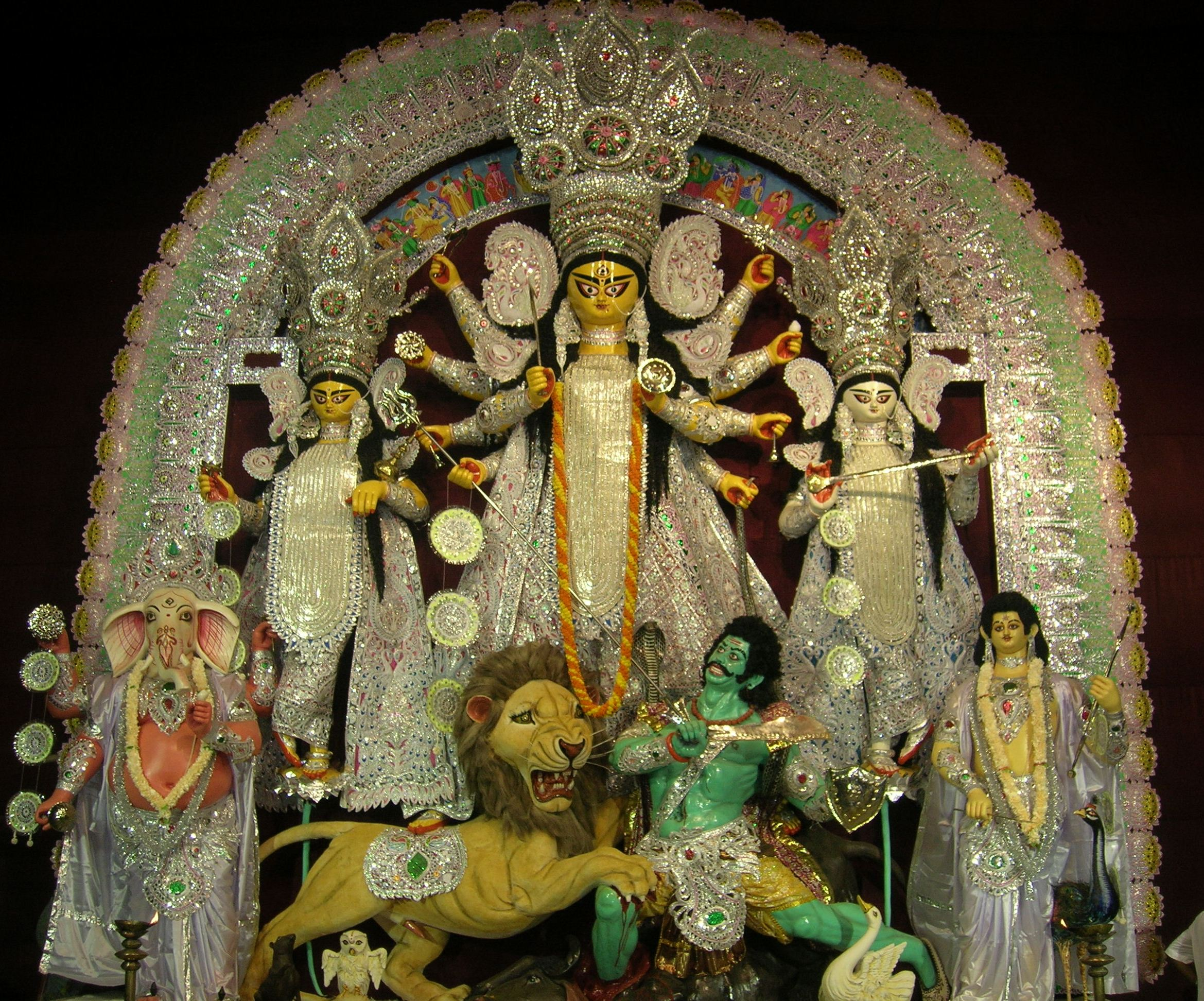 Durga idol at Bagbazar Sarbojanin Puja, North Kolkata, 2010.